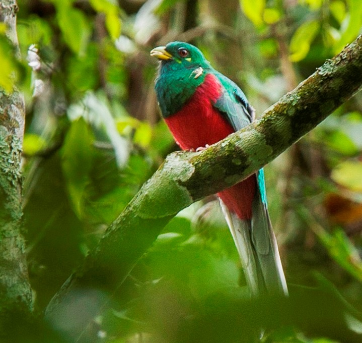 Narina Trogon in Uganda, H8O4347